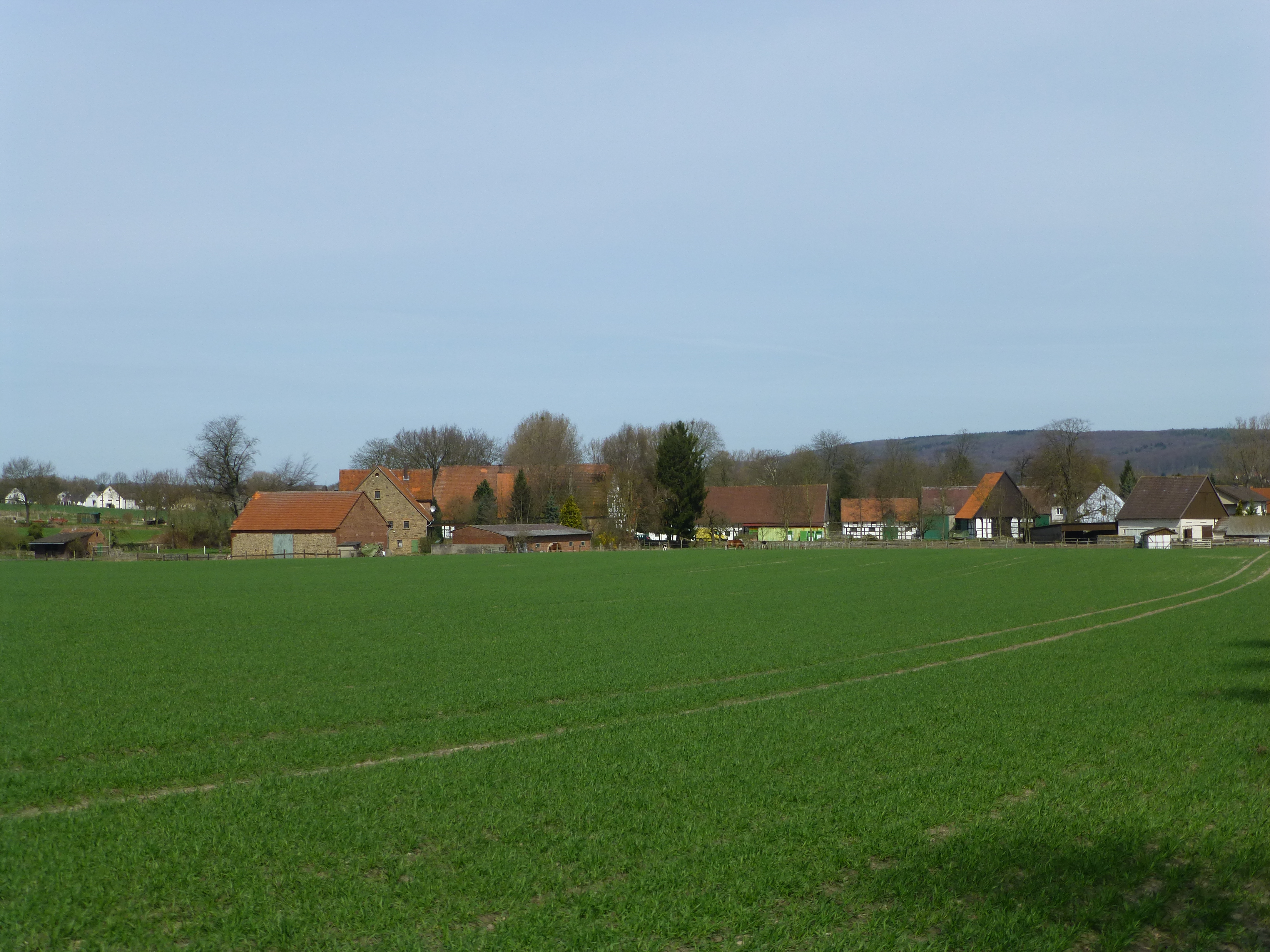 Werl, Werl-Aspe, Bad Salzuflen, Germany.